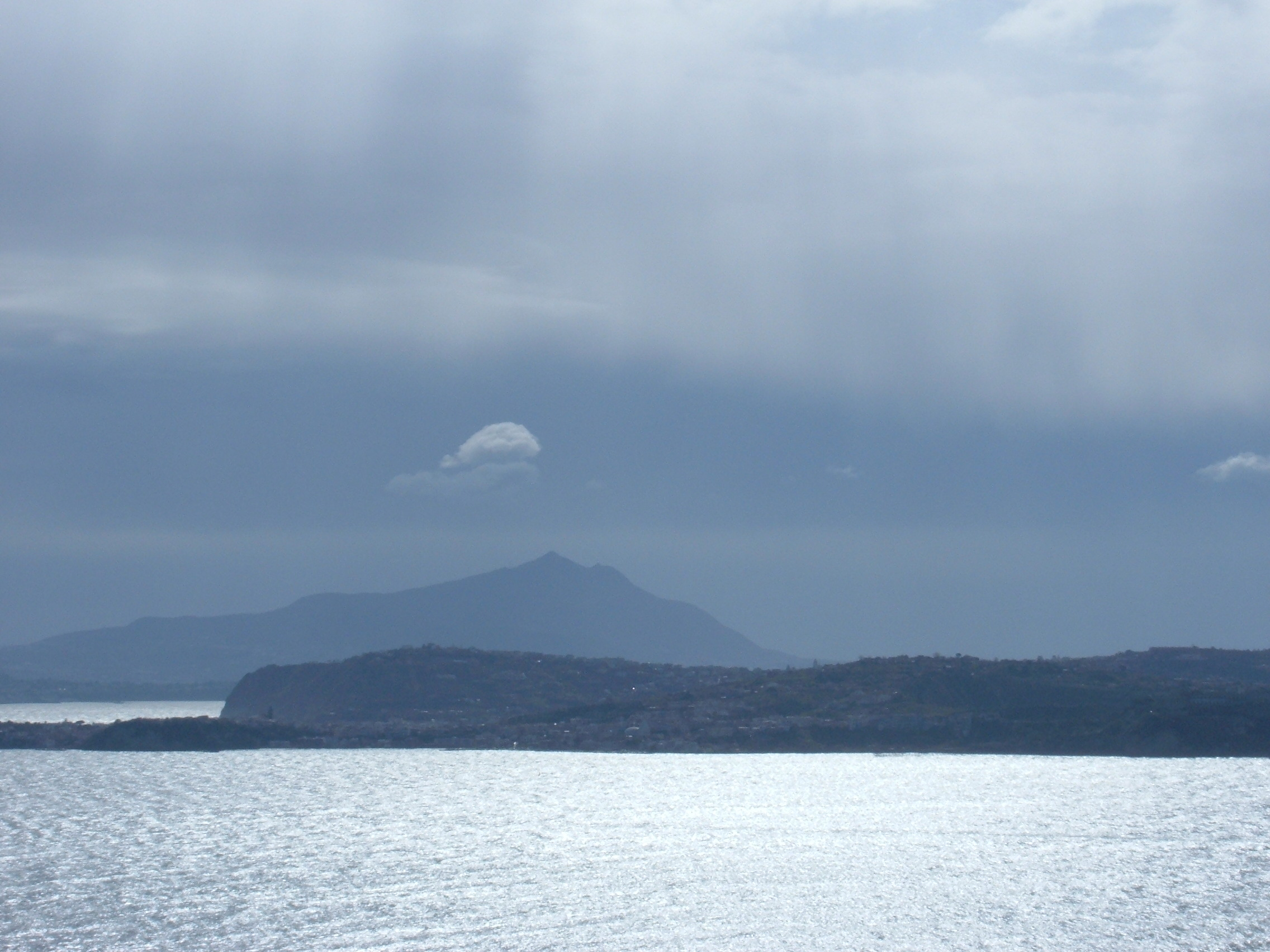 Bay of Pozzuoli (part of the Bay of Naples), April 2005. Taken at Pozzuoli, viewing in the direction of Baia (Baiae). The island Ischia is visible in the background.